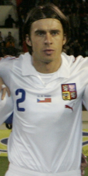 Zdeněk Grygera (Czech Republic) before the friendly match against Morocco on February 11, 2009